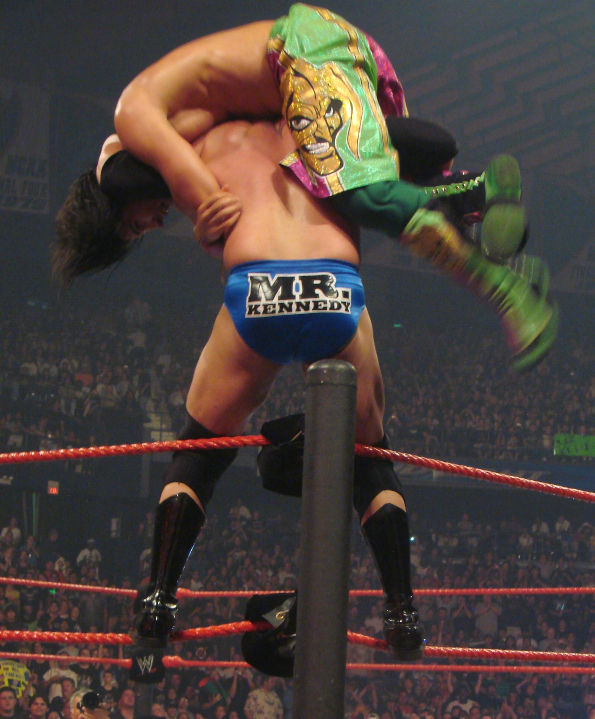 Mr. Kennedy and Paul London at No Mercy 2007. Allstate Arena, Rosemont, Illinois, October 7, 2007.